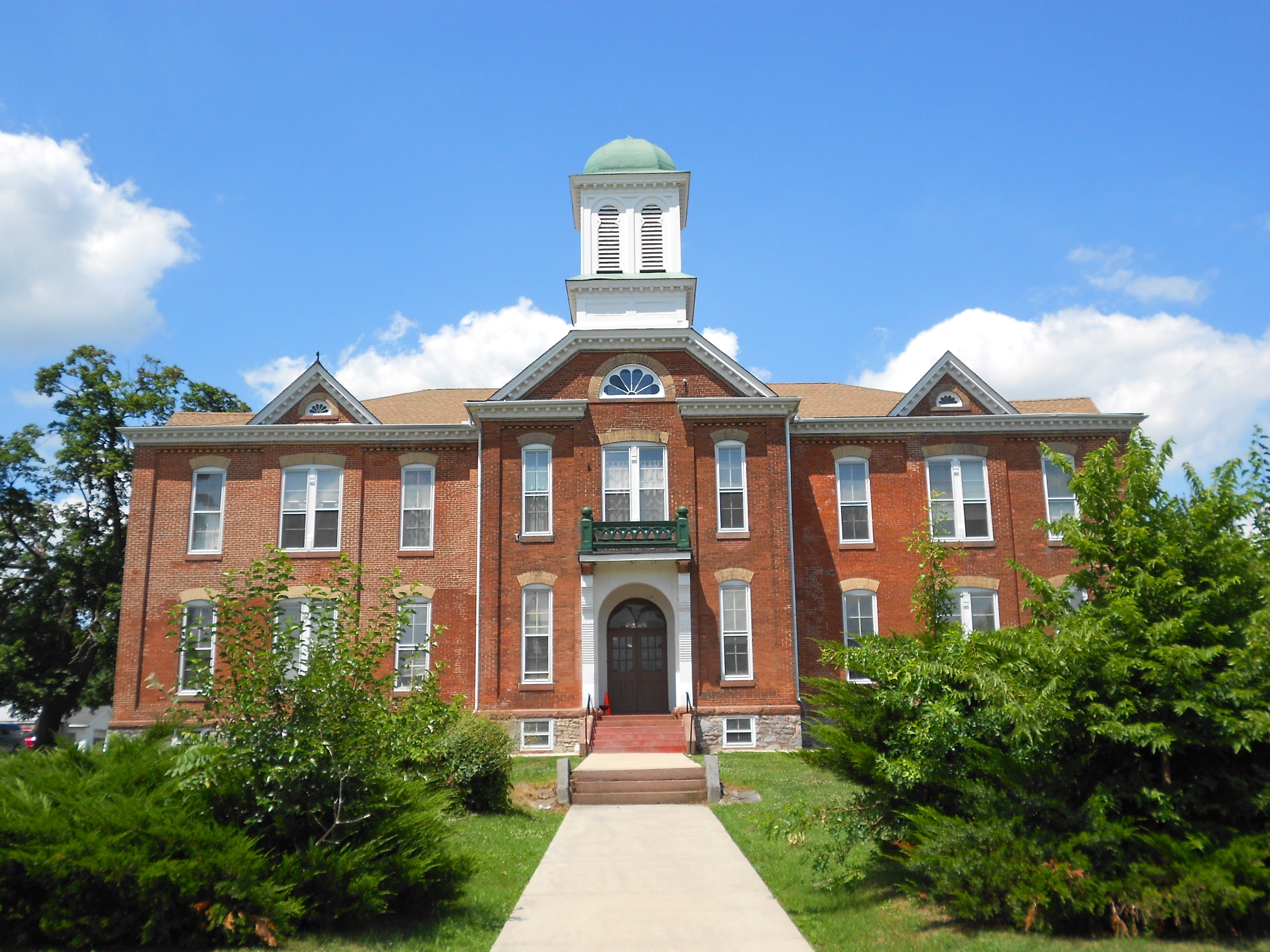 Manor Street Elementary School (listed on the NRHP on April 2, 1987) at Tenth and Manor Streets, Columbia, Lancaster County, Pennsylvania